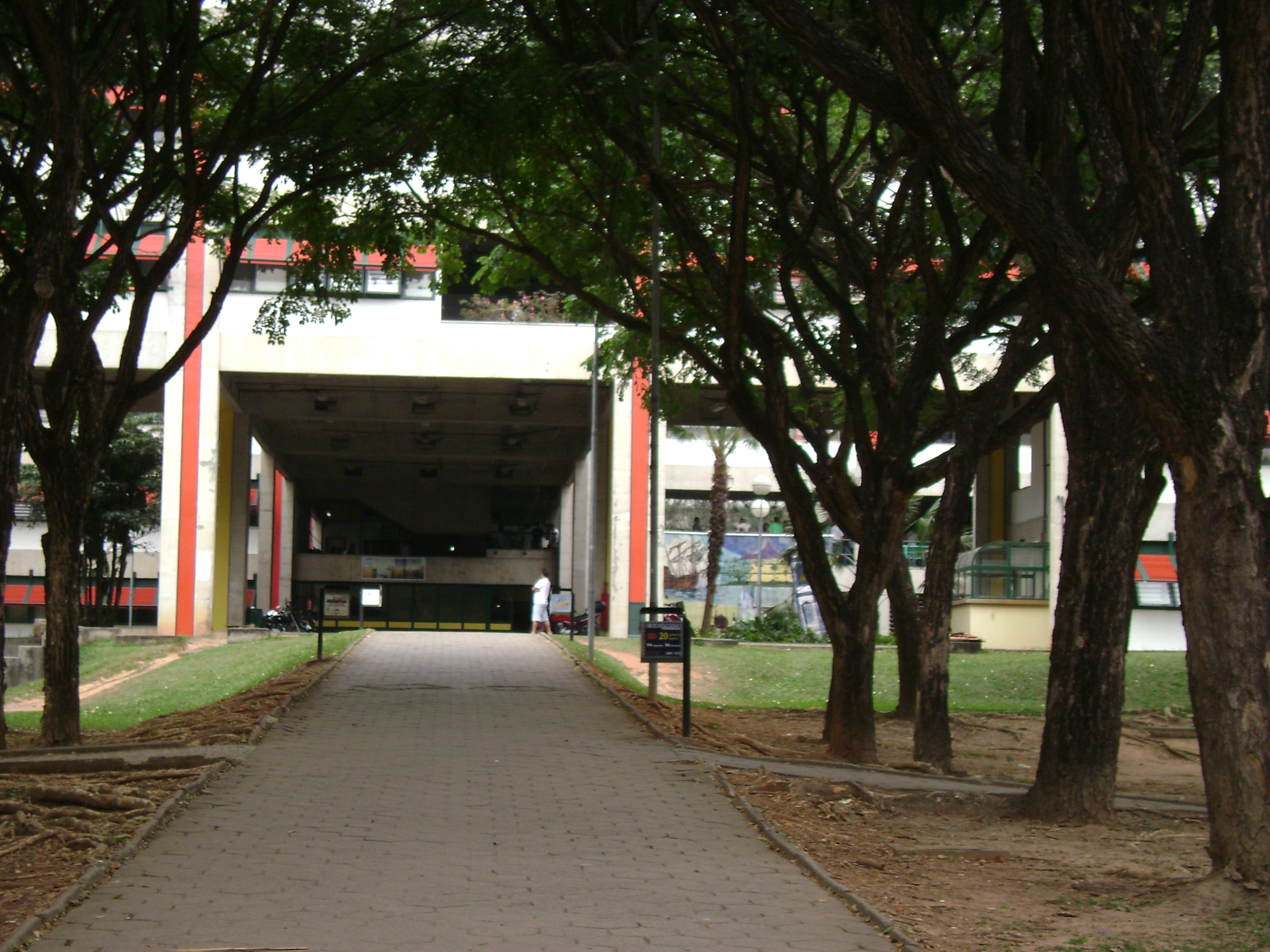 Entrance of "Faculdade de Filosofia e Ciências Humanas", in UFMG.